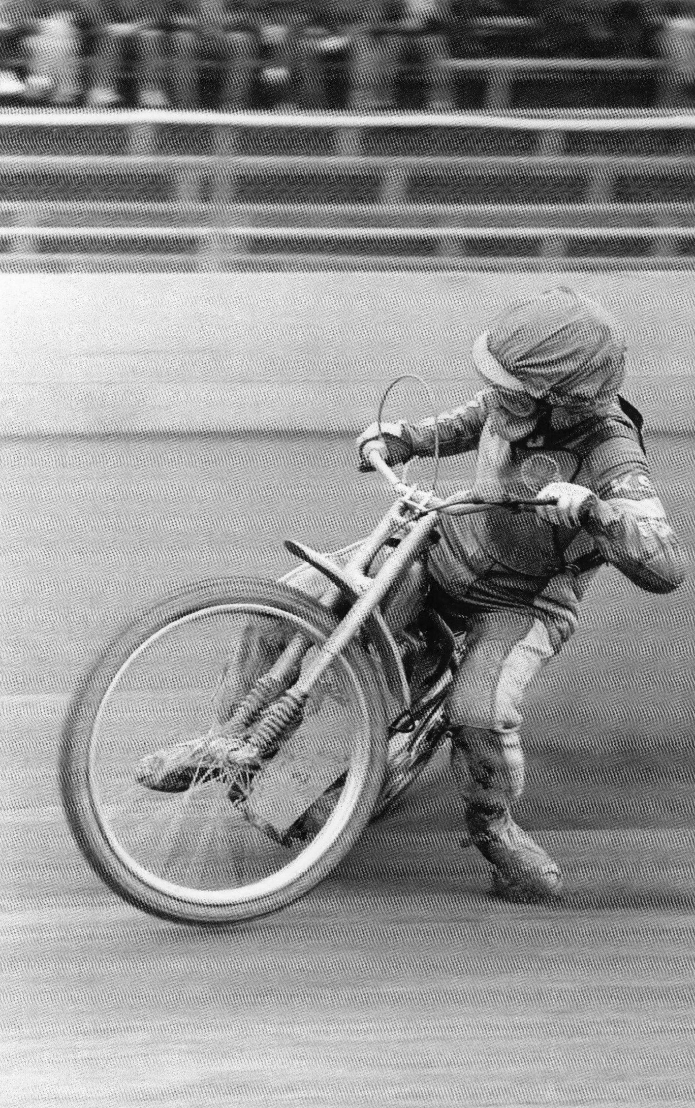 Jerzy Rembas starting in "Stal" Gorzów Wielkopolski.